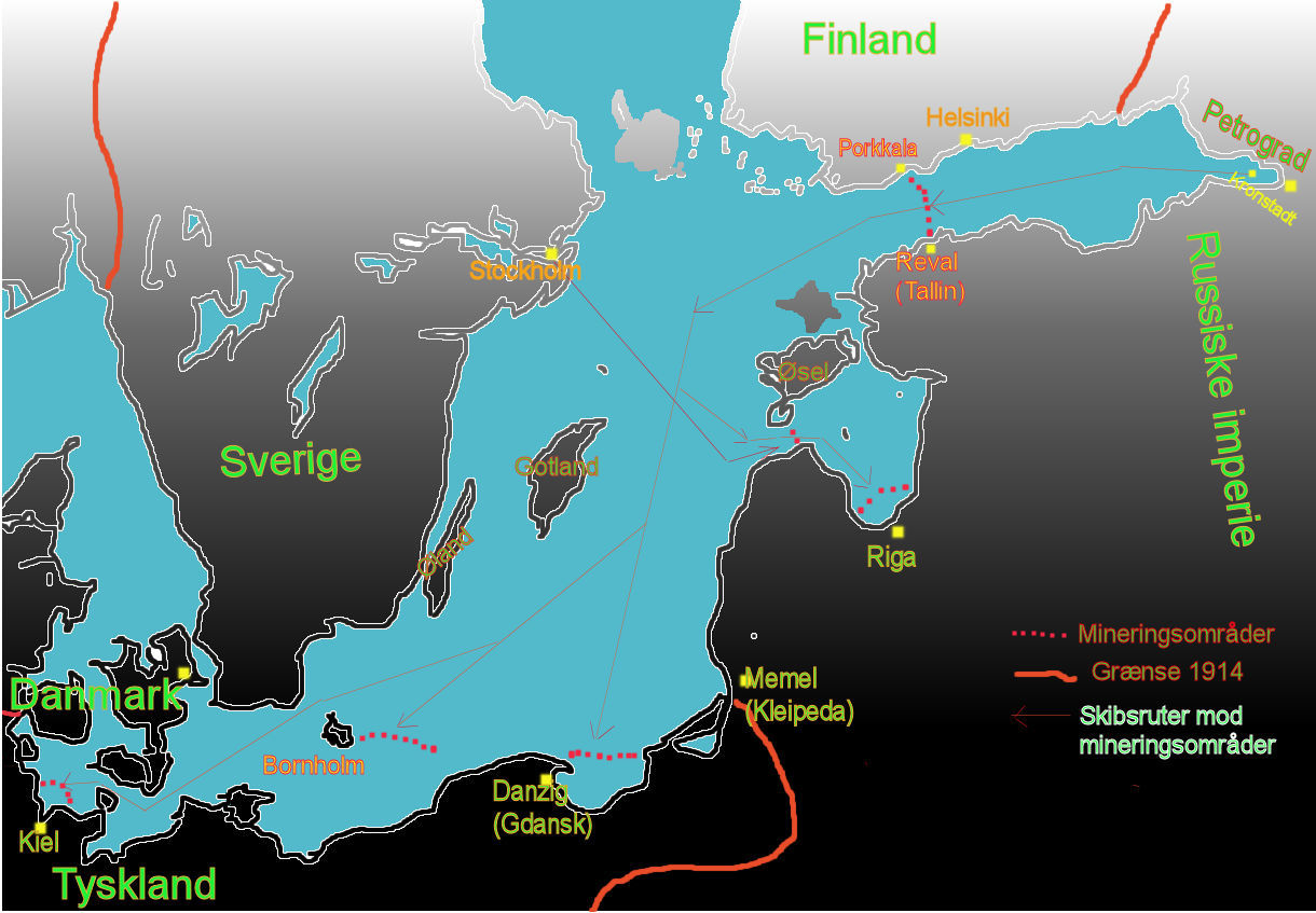 Map of Baltic Sea using Danish names showing the most important mining areas laid under command and participation by Alexander Kolchak